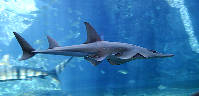 A giant guitarfish (Rhynchobatus djiddensis) in UShaka Sea World